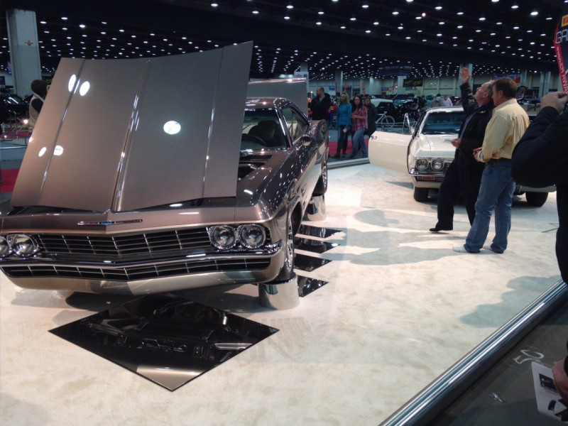 2015 Riddler Recipient: Don & Elma Voth's '65 Impala "Imposter".